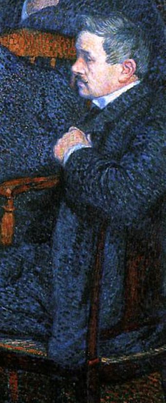 Maurice Maeterlinck